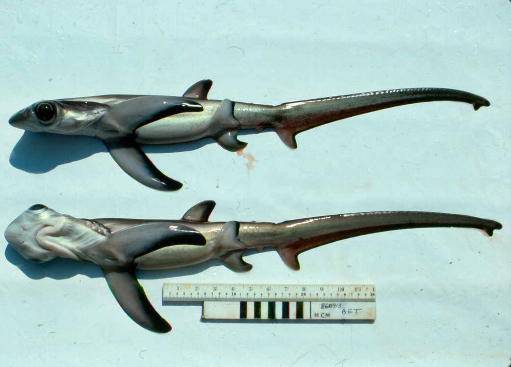 Bigeye thresher shark (Alopias superciliosus) embryos